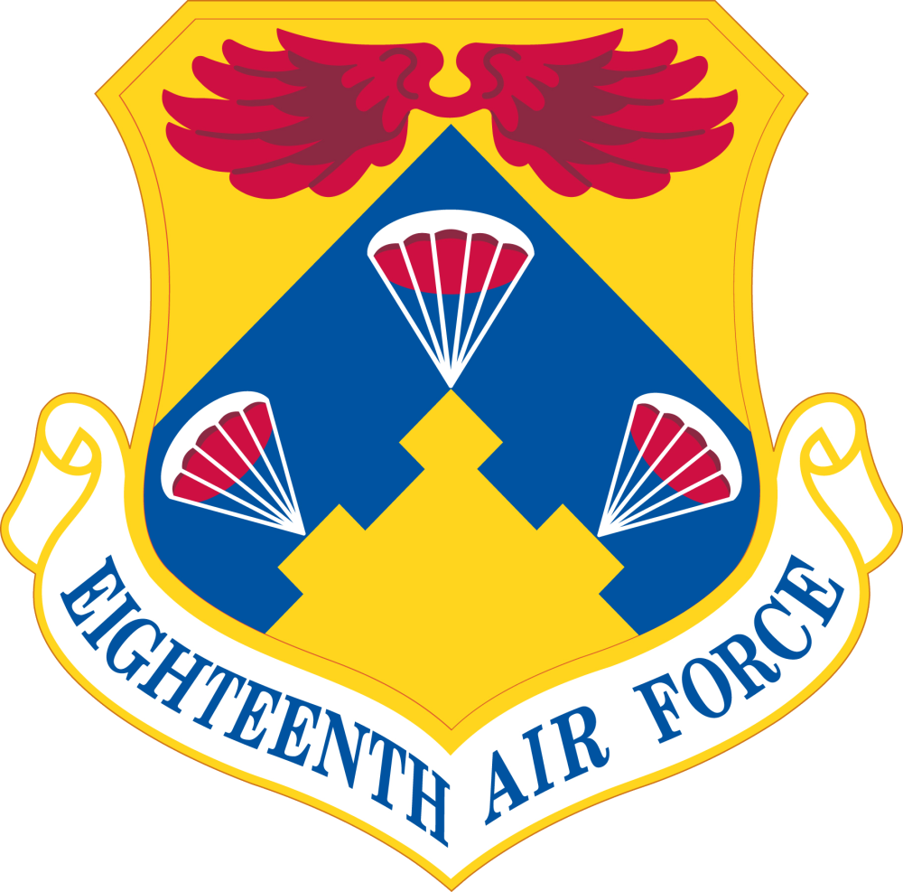 Emblem of the 18th Air Force of the United States Air Force displays a chevron and wings, which are ancient military symbols of strength and protection. There are parachutes on the shield to represent the equipment used by the organization in carrying out its mission with speed, safety, and success.